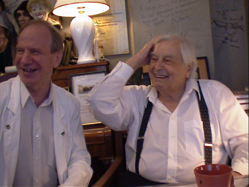 Konstantin Kedrov Urij Lubimov kabinet Lubimova 2007